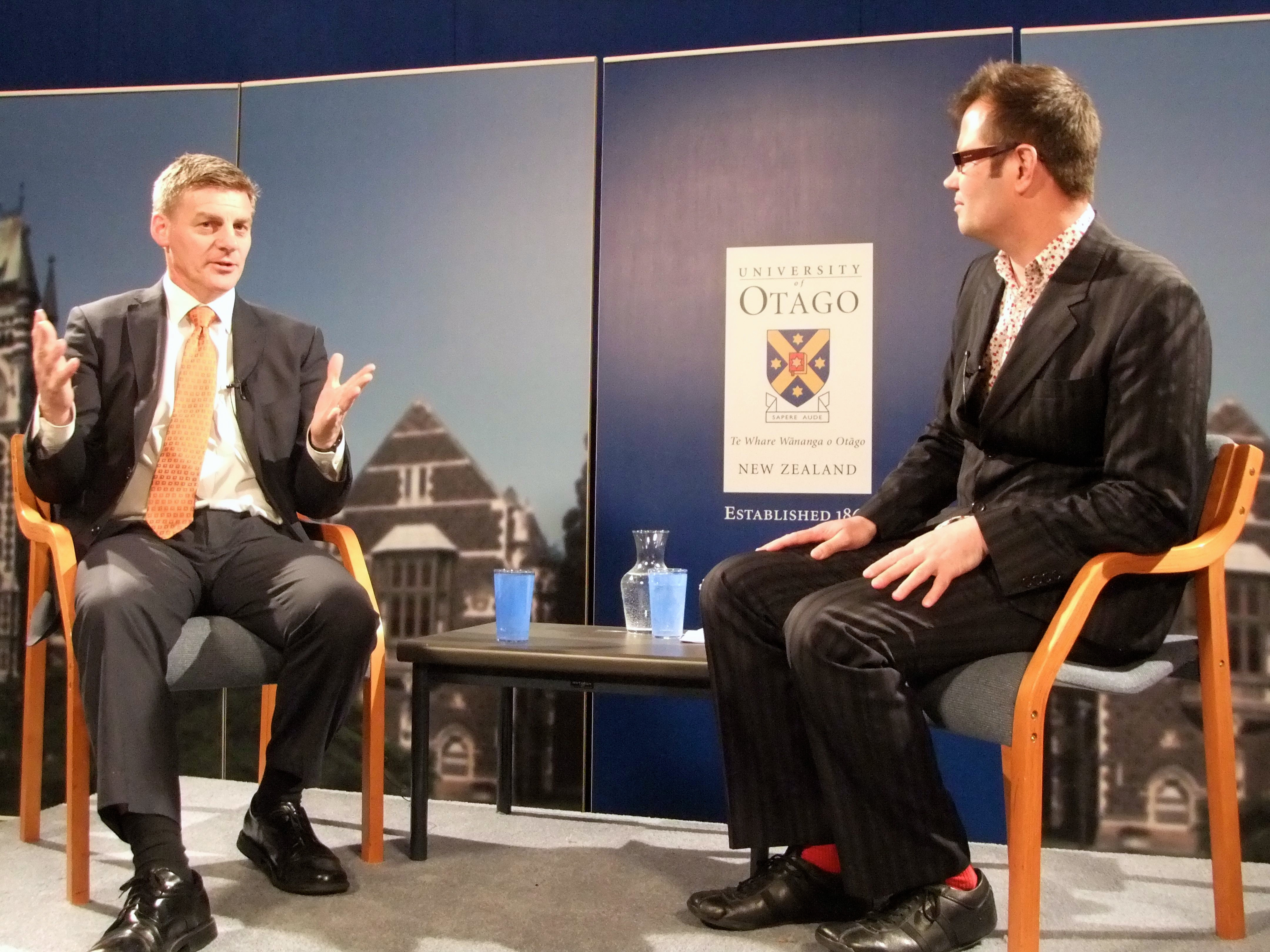 Talking to Minister of Finance Bill English in a University of Otago 'Vote Chat' election year forum